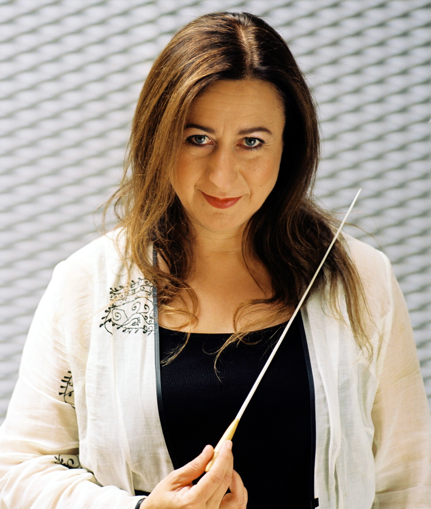 Portrait of the conductor Simone Young, taken in 2007 on behalf of the Hamburg State Opera, which is led by Simone Young.